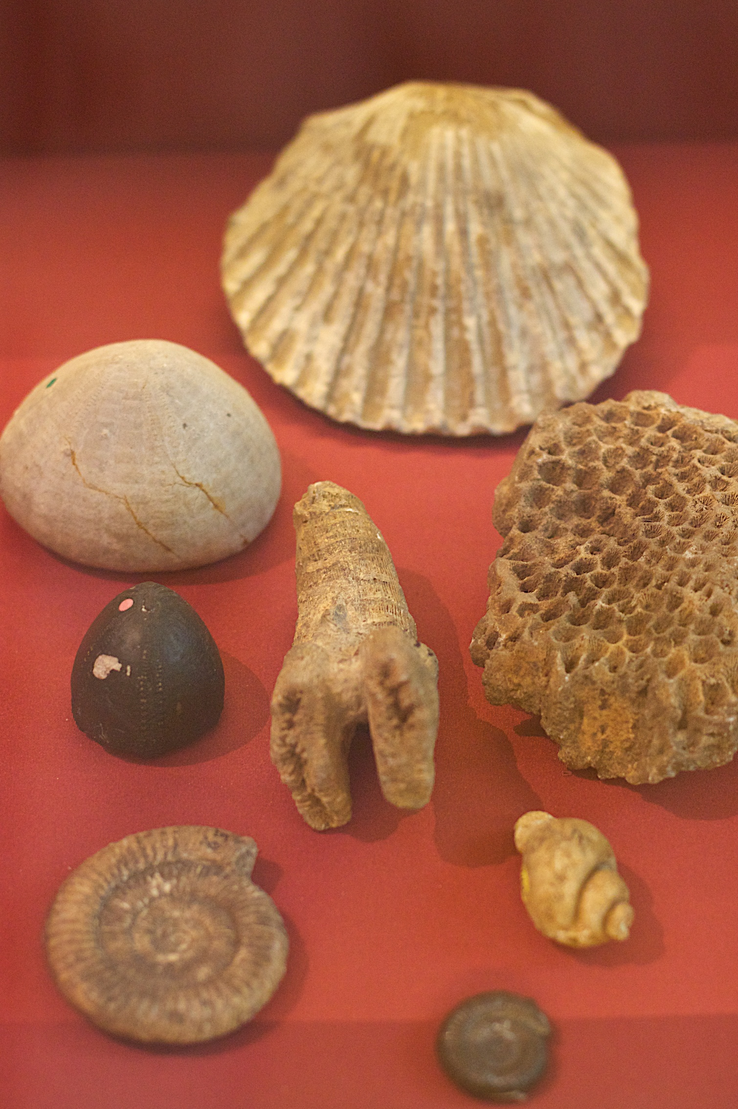 Some of the fossils collected by William Smith as he postulated the Map That Changed The World (paying more Geological homage). Display at British Museum.